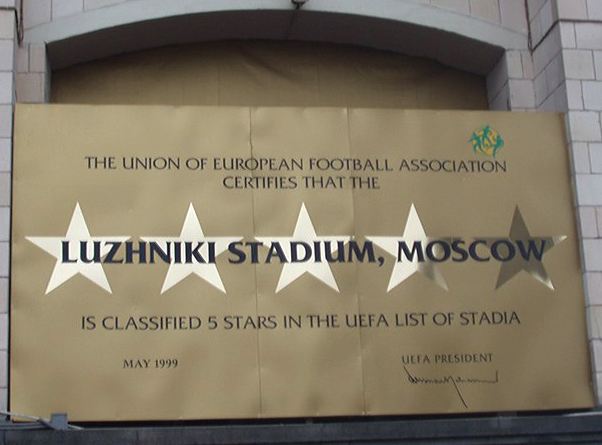 Luzhniki Stadium in Moscow has a UEFA 5-star rating by Matthew Mayer, 2005